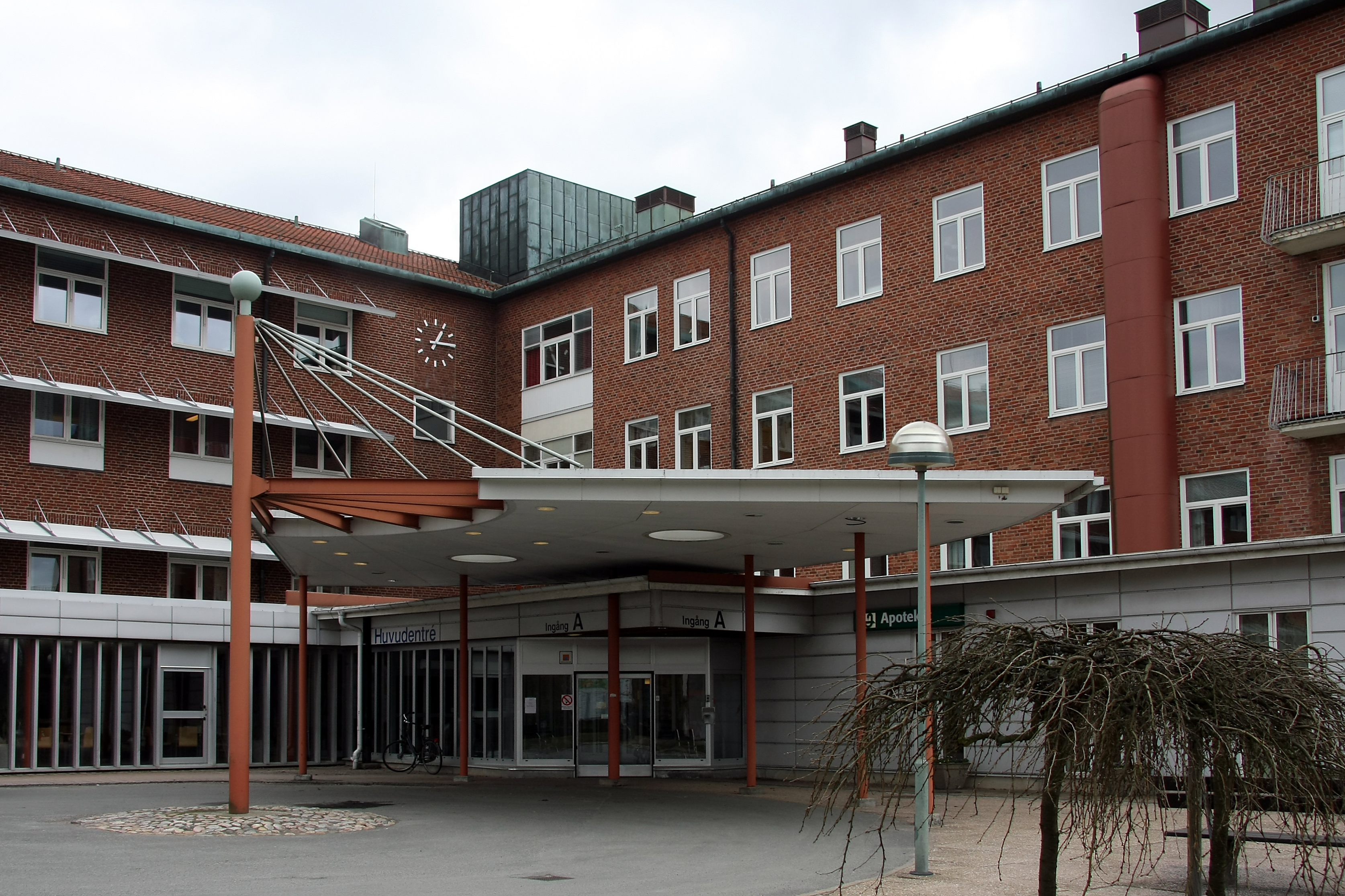 Main entrance of the community hospital in Hässleholm, Sweden